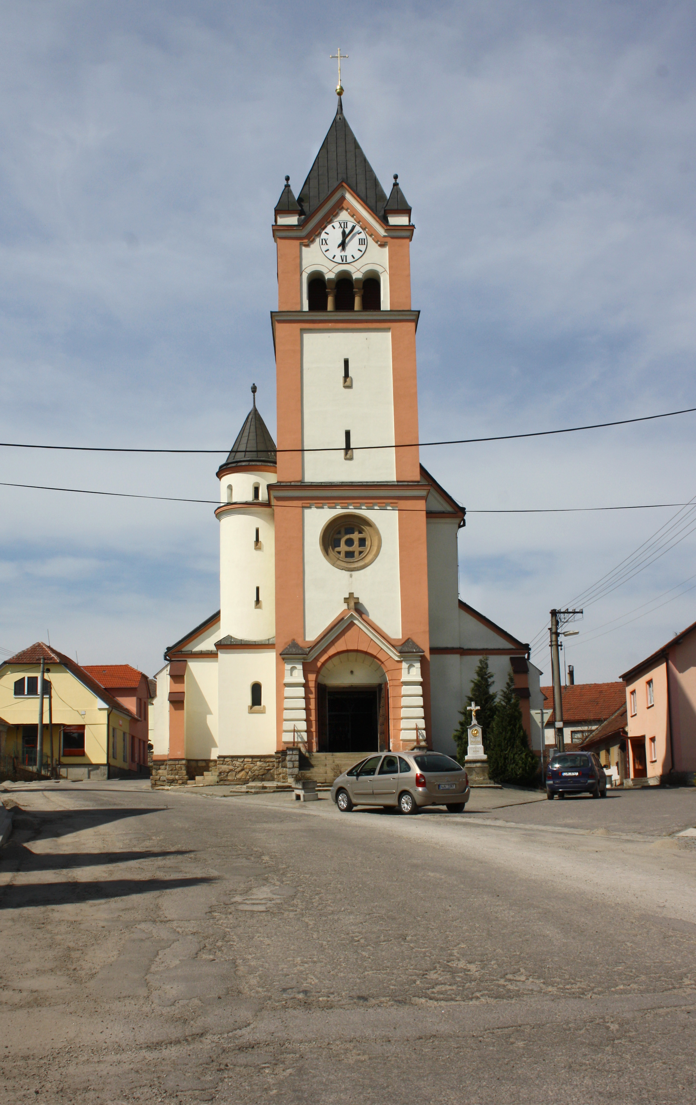 Church of the Exaltation of the Holy Cross in Uhřínov